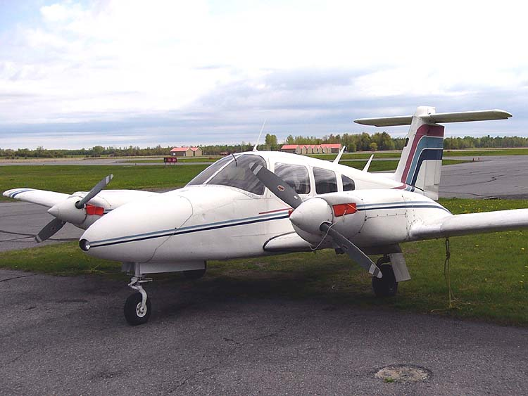 Piper PA-44-180 Seminole (C-FLZJ)